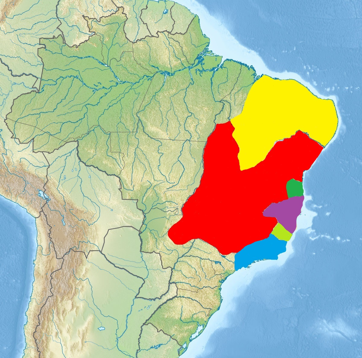 Distribution Callithrix